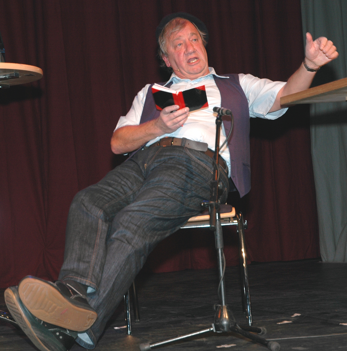 Detlev Schönauer with Jaques Bistro performing at Internationale Kulturbörse, Freiburg